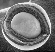 This likely SEM photo of a cracked TRISO fuel pellet showing its layered nature was taken from the US Department of Energy, Office of Nuclear Energy, Science and Technology website.